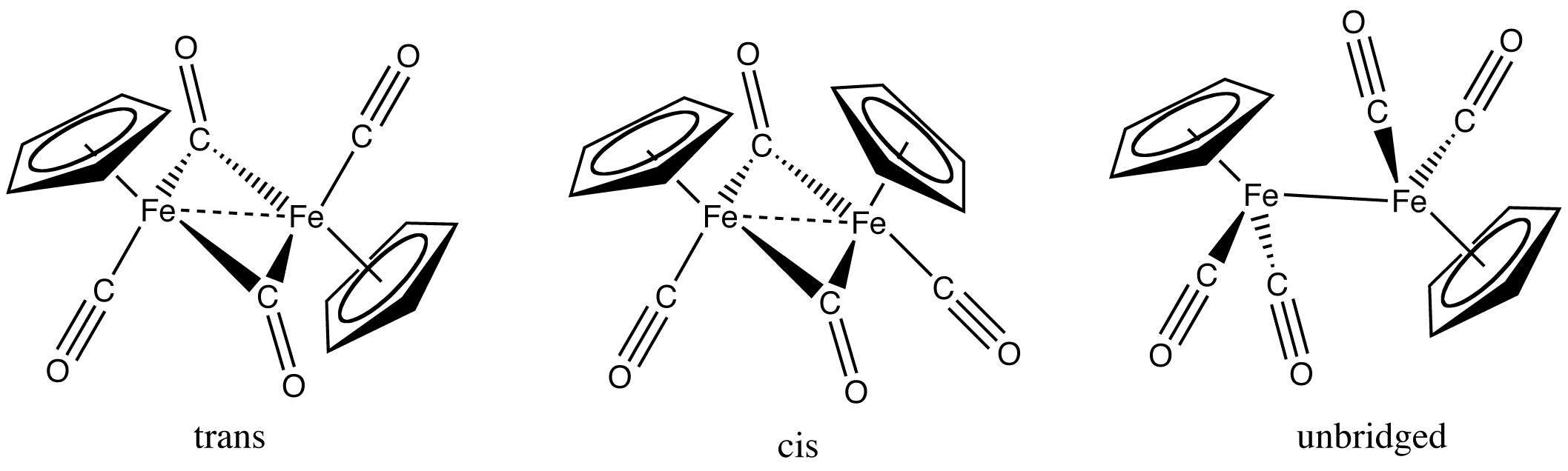 Created by using Chem Draw